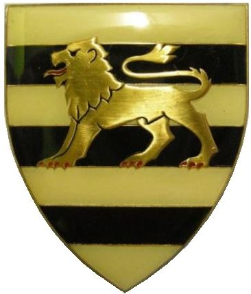 SADF era Lichtenburg Commando emblem